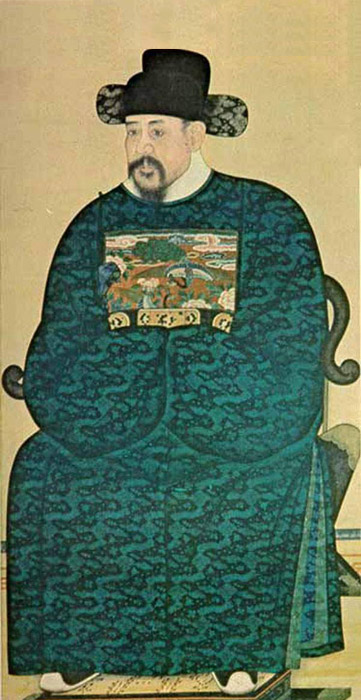 Yi San-hae